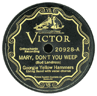 Mary, Don't You Weep by the Georgia Yellow Hammers, Victor Records 1927